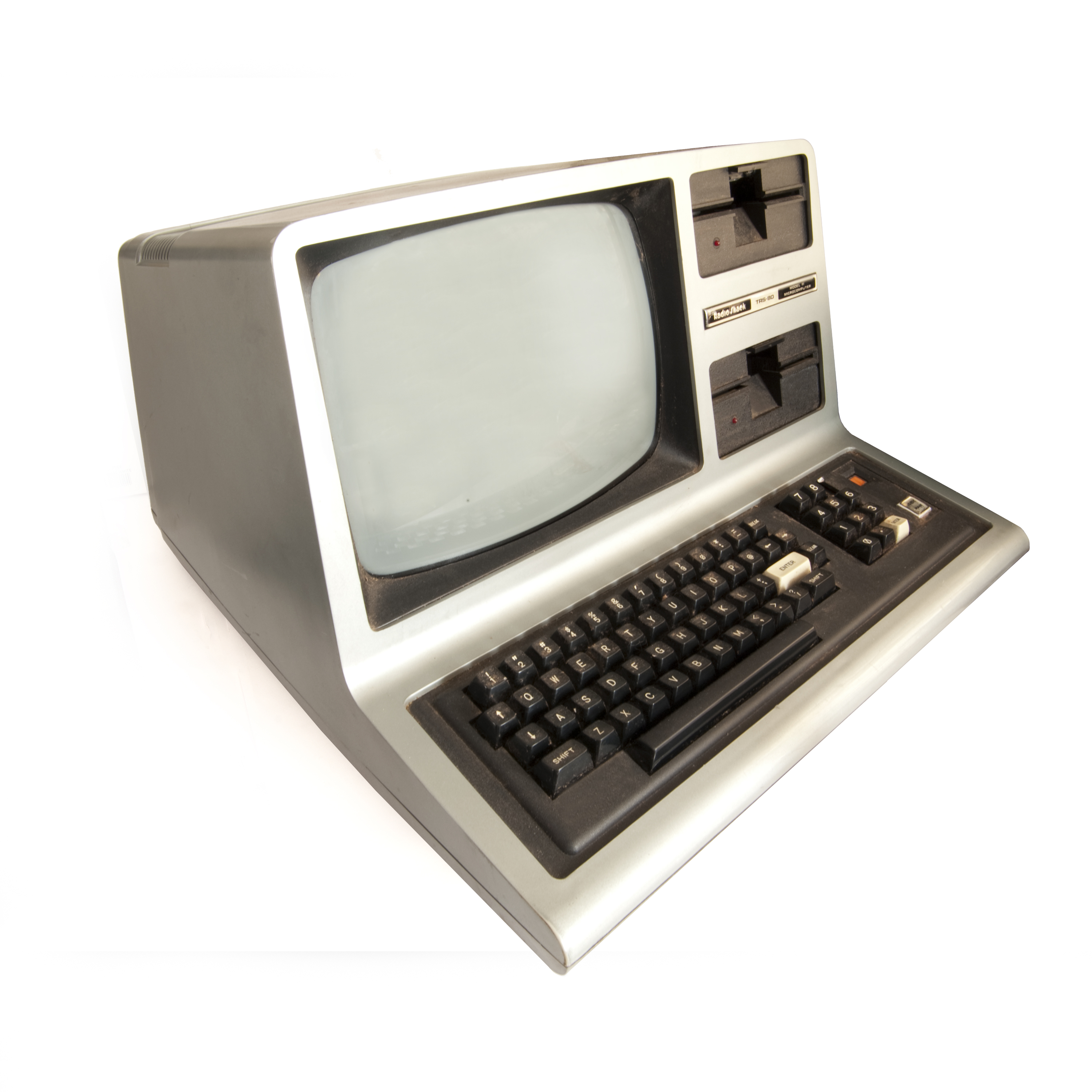 Tandy/Radio Shack TRS-80 Model 3 computer.